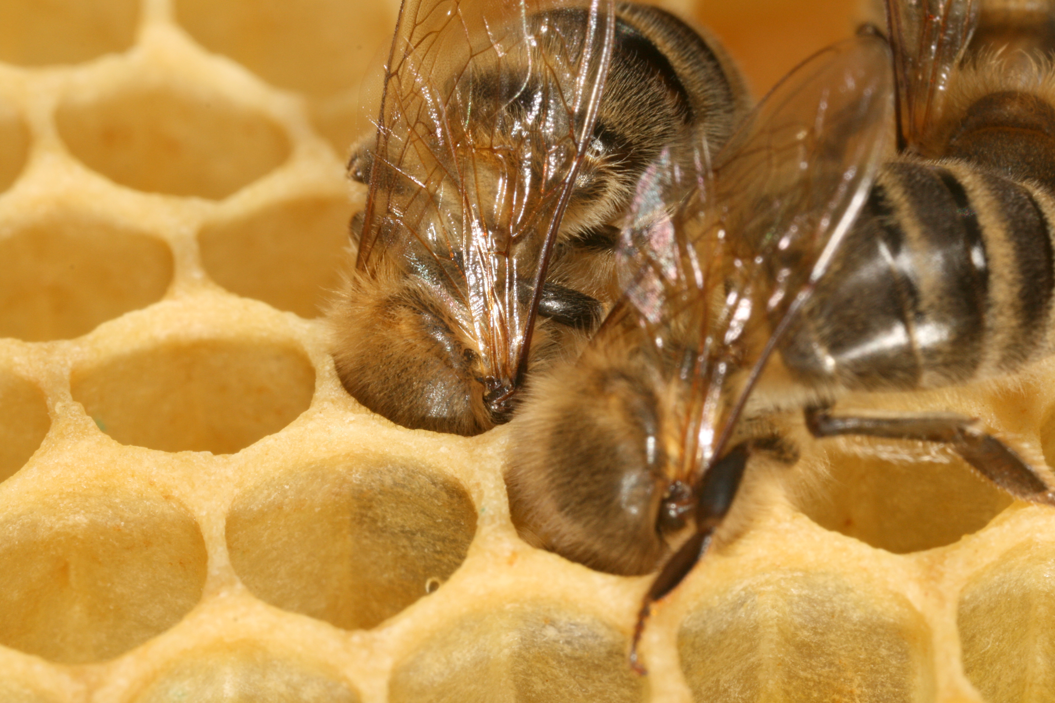 Description: The Carniolan honey bee (Apis mellifera carnica) is a subspecies of Western honey bee. It originates from Slovenia, but can now be found also in Austria, part of Hungary, Romania, Croatia, Bosnia and Herzegovina, and Serbia.